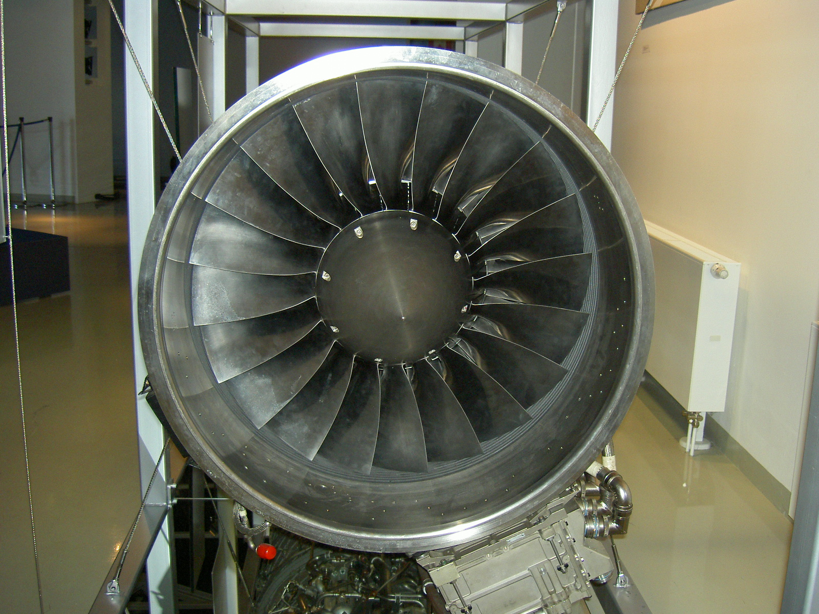 EJ200 - Eurofighter engine air inlet (fan)